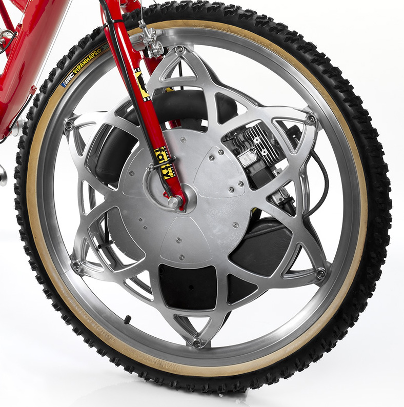 A RevoPower Wheel- an attachment to provide motorized power to bicycles.